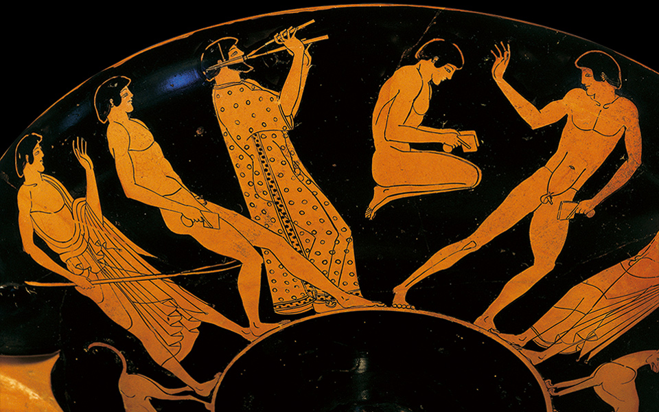 The jumper on the left prepares to jump from standing by performing an isometric press which, generates muscular pretension which will be utilised in the subsequent jumping action. The jumper on the right is mid-flight. This kylix is currently held by the Antikenmuseum Basel und Sammlung Ludwig: inventory number KA 425 (Beazley Archive Pottery Database number 205075). Copyright permission sought from and granted by Antikenmuseum after advice from the National Archaeological Museum, Athens.